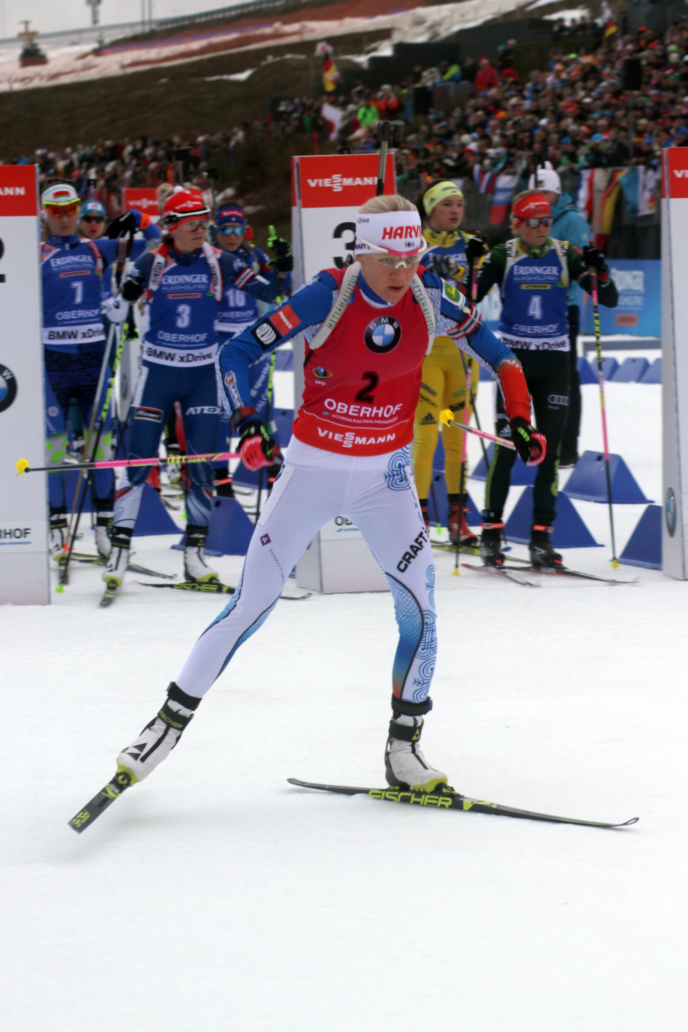 2018 Oberhof Biathlon World Cup - Pursuit Women